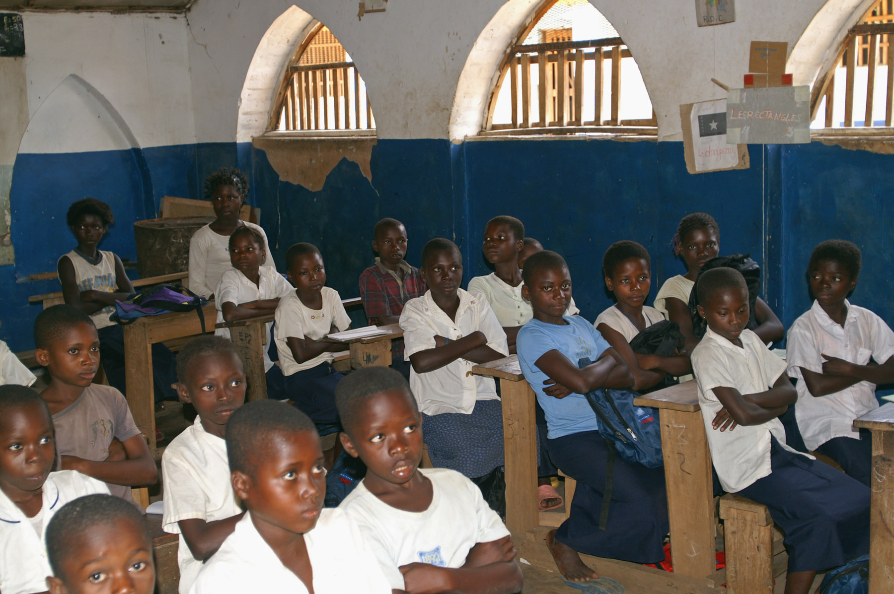 Primary school students in a classroom in the Democratic Republic of the Congo